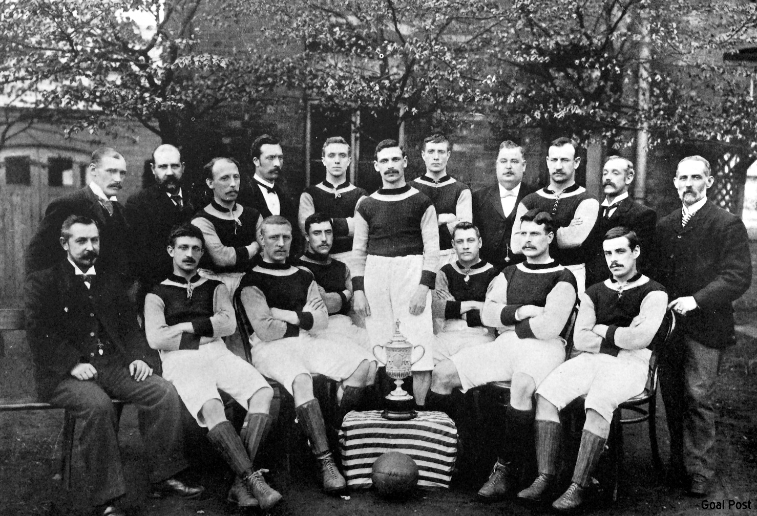 The Aston Villa team that won the FA Cup, posing with the trophy.